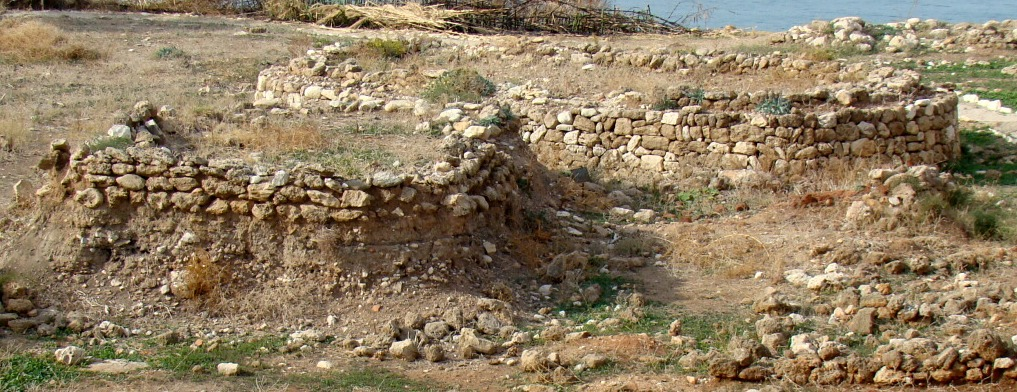 Neolithic (or Chalcolithic) "oval" huts. Byblos